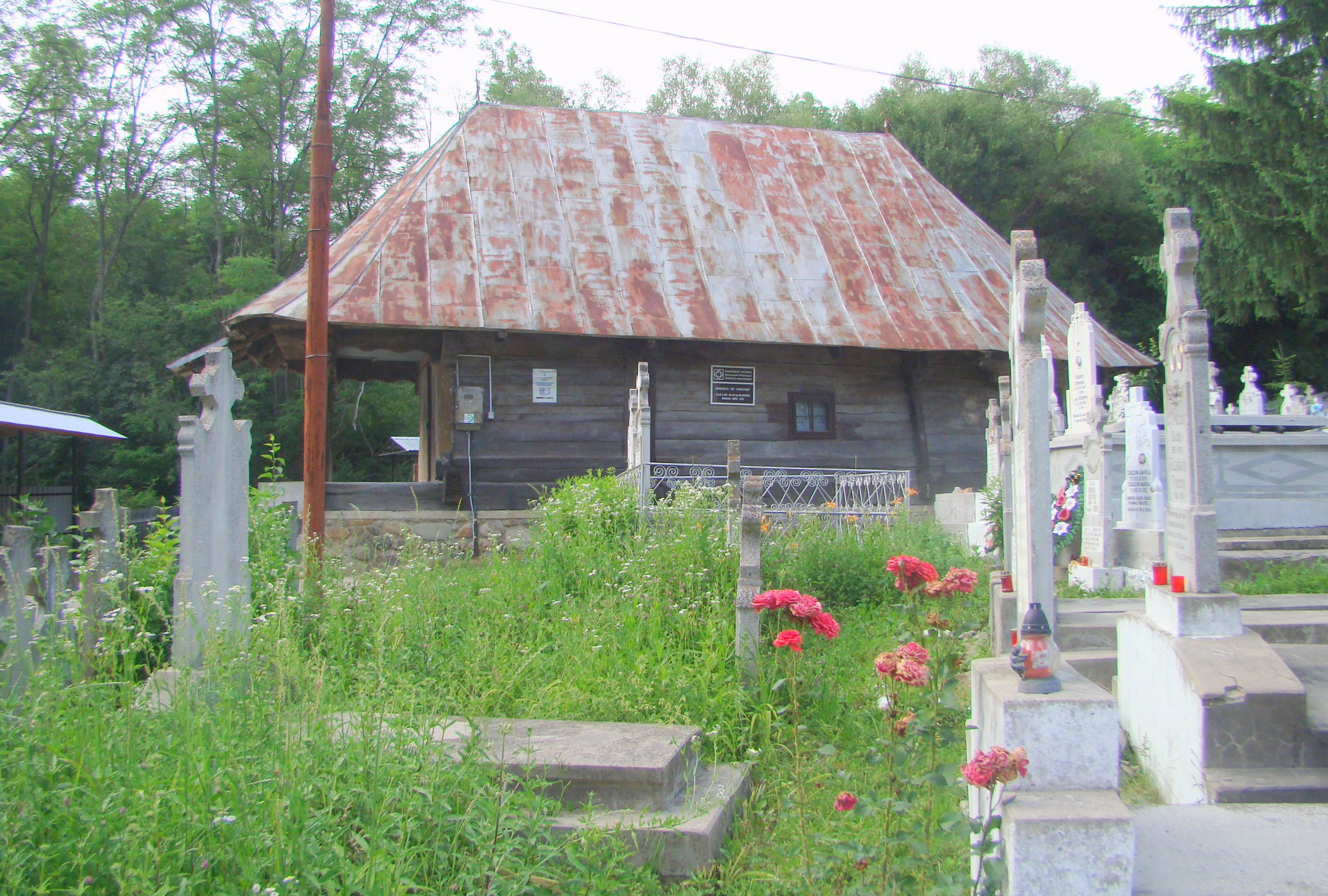 Wooden church in Brătuia, Gorj county, Romania